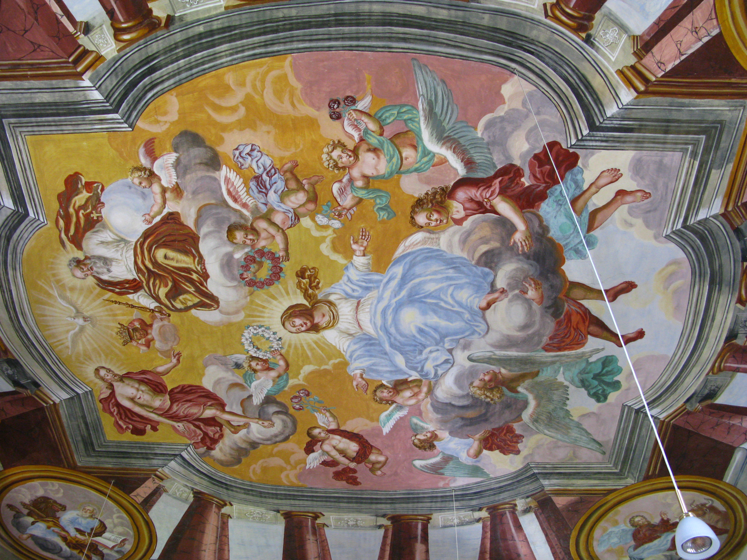 Ceiling fresco Assumption of Mary in the church of Matzelsdorf, a village in the community of Millstatt in Carinthia / Austria / EU.